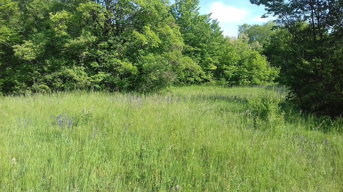 U Brněnky Natural reserve, Bromion erecti